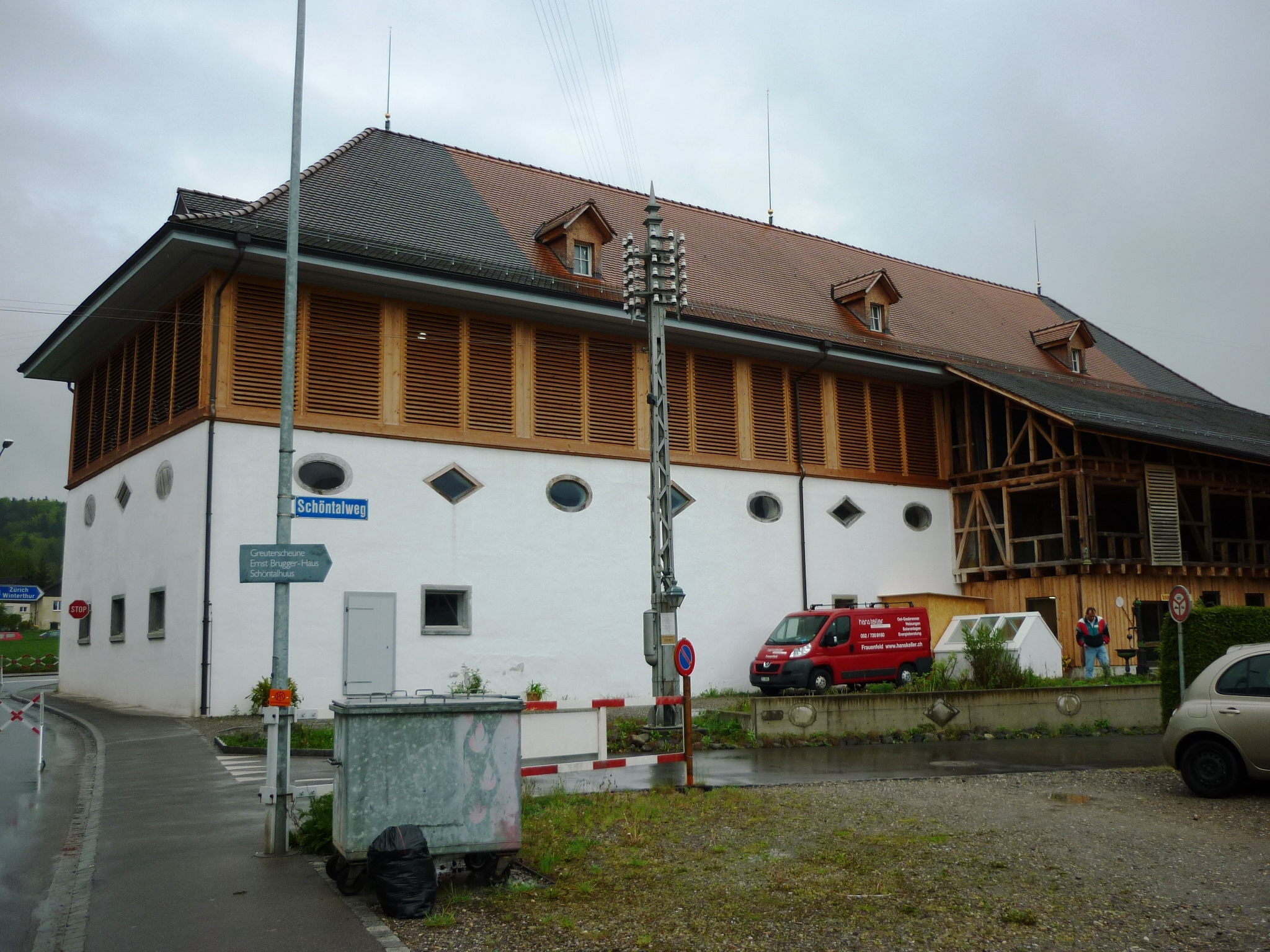 Greuterhof, Islikon TG, Switzerland